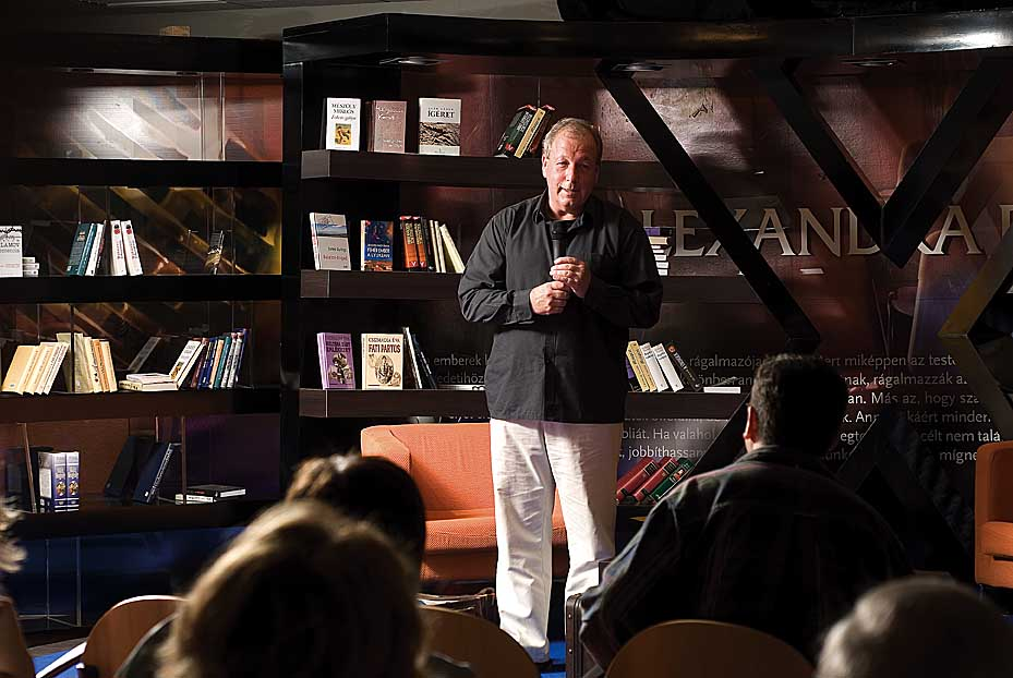 Travels in Erotica book presentation. Photo by Andras Hasz. Miklós Vámos